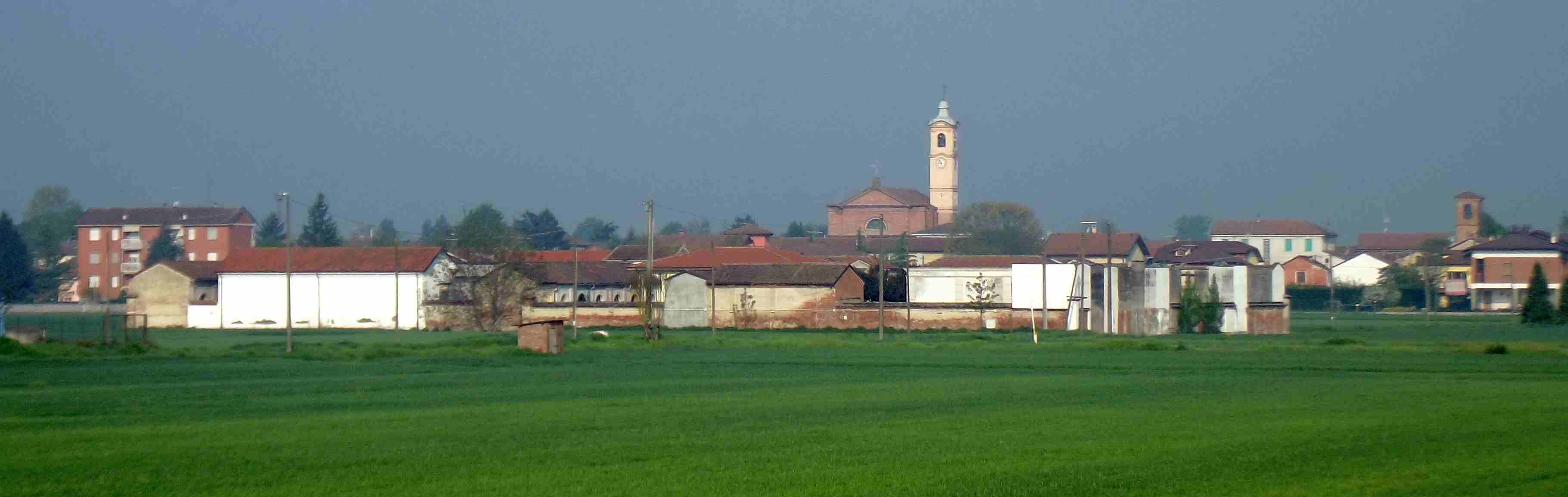 Cantalupo di Alessandria: panorama from the former national road n. 30